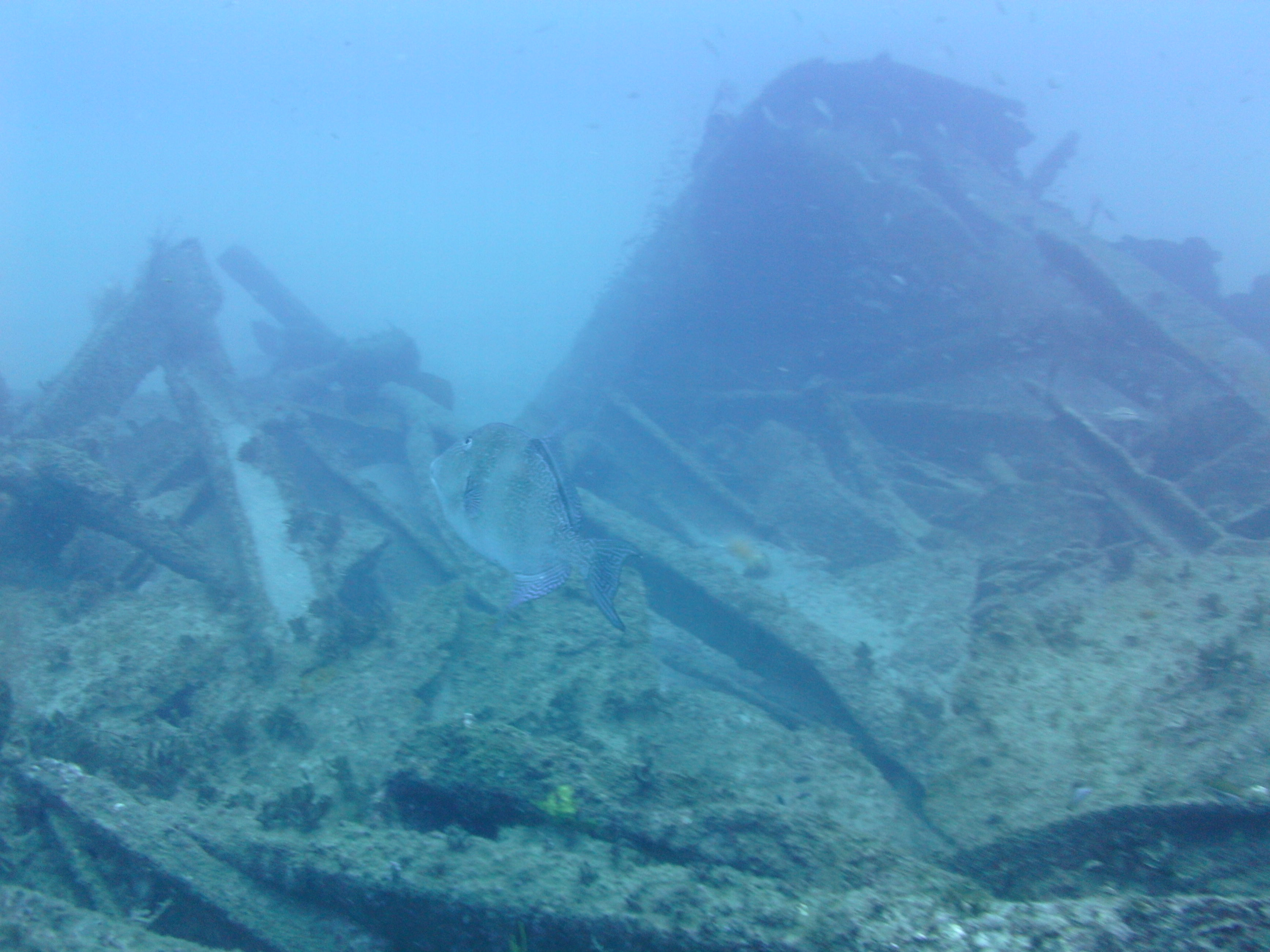 Ashkhabad 08/2014